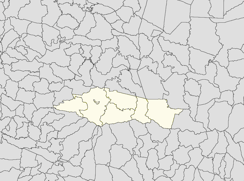 Barrios in the municipality. Map scale is 1:200,000